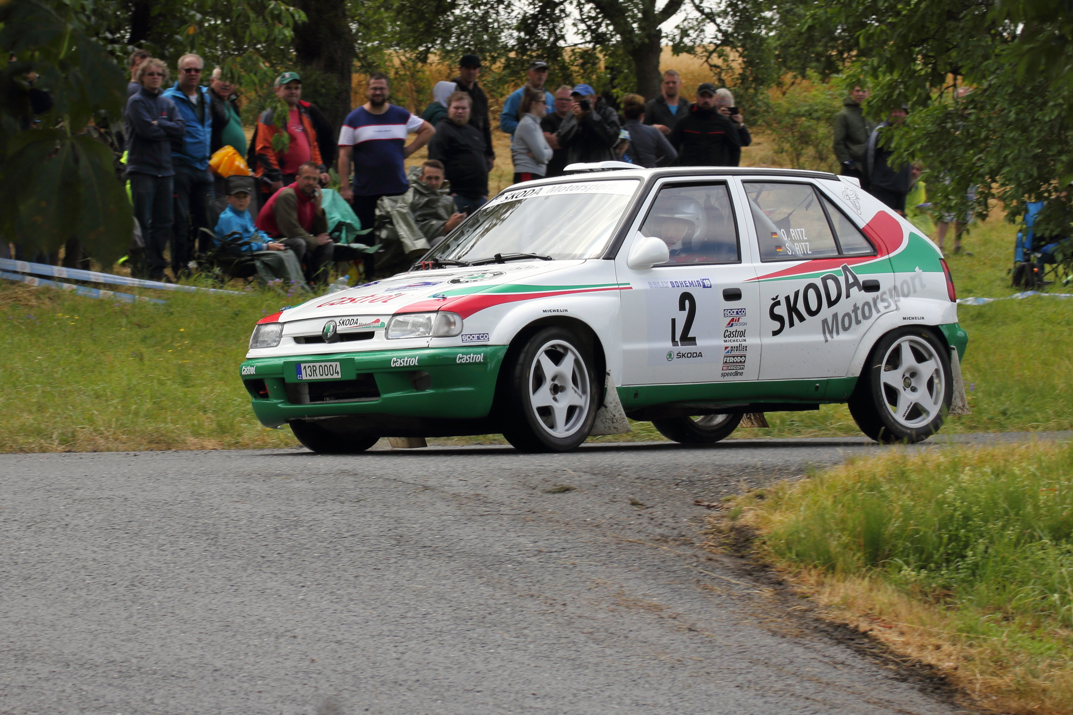 Olivier Ritz / Stephanie Ritz (DEU), Škoda Felicia KIT CAR (A, 1995, orig.), 2019 Rally Bohemia Legend